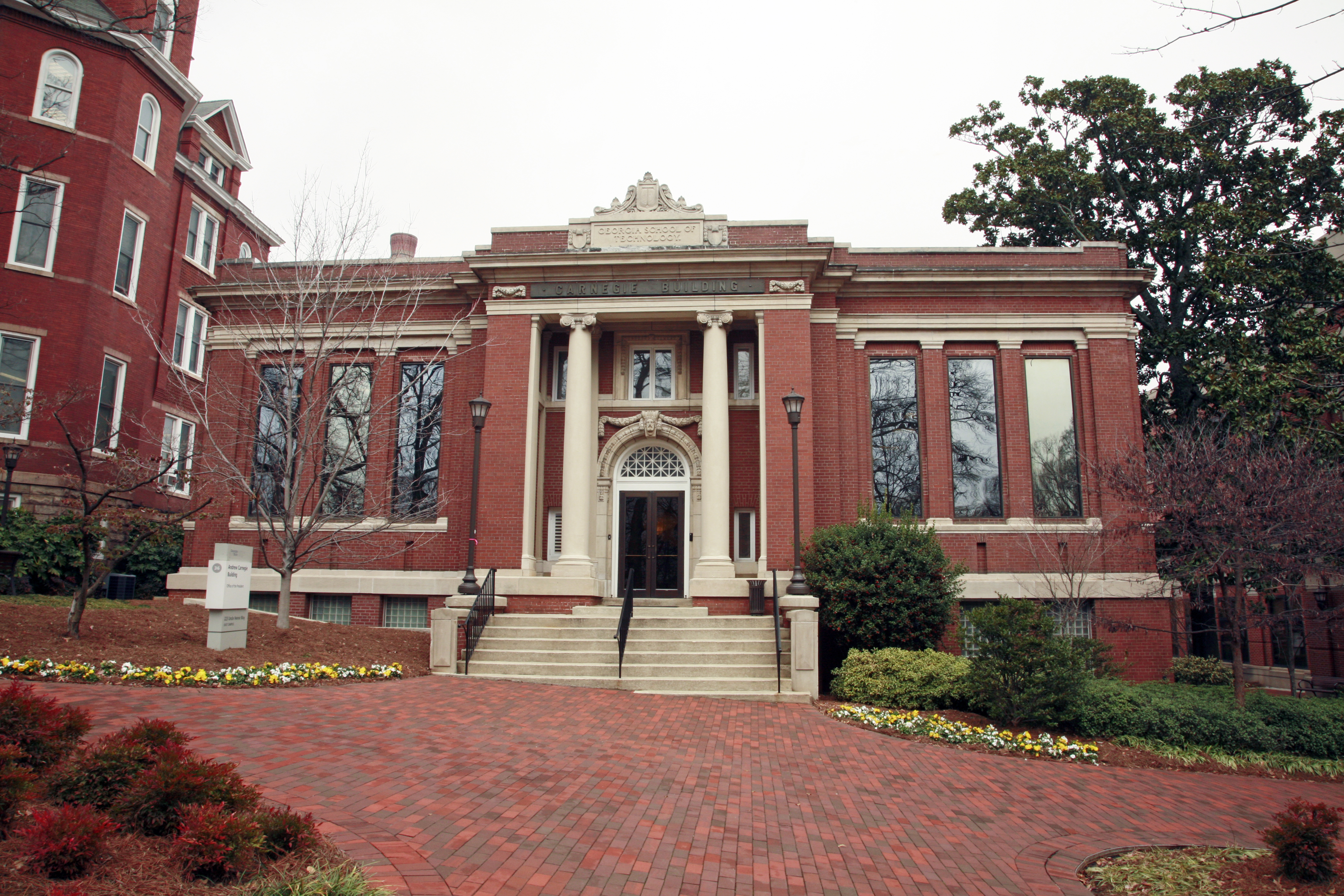 Georgia Tech's library from 1907 till 1953